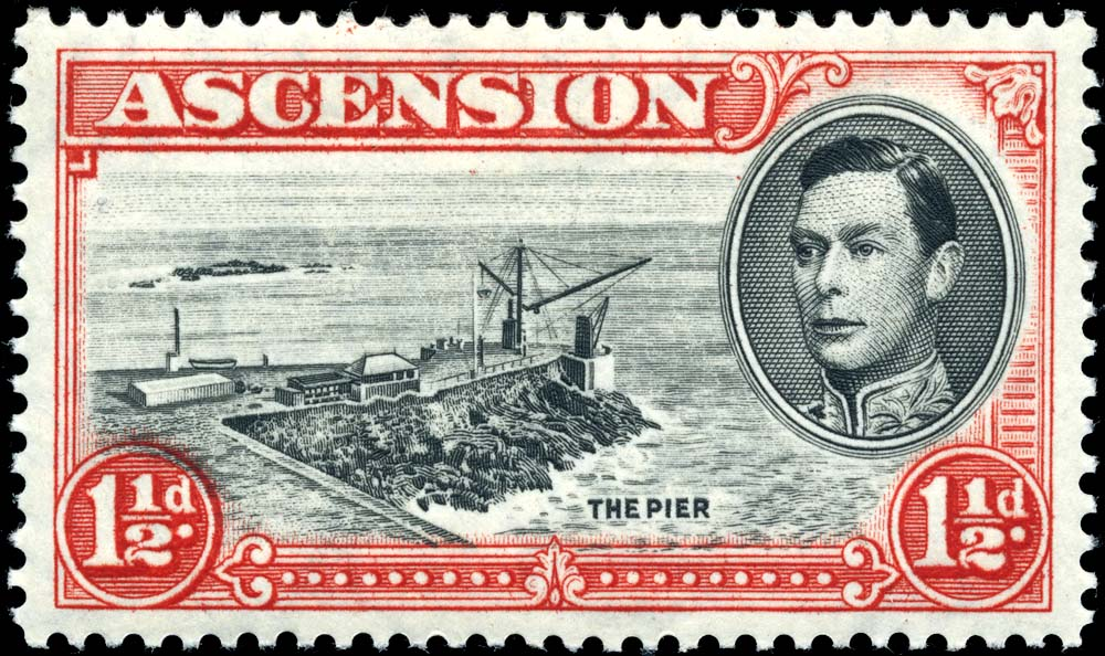 Ascension Island three-half-penny stamp of 1937